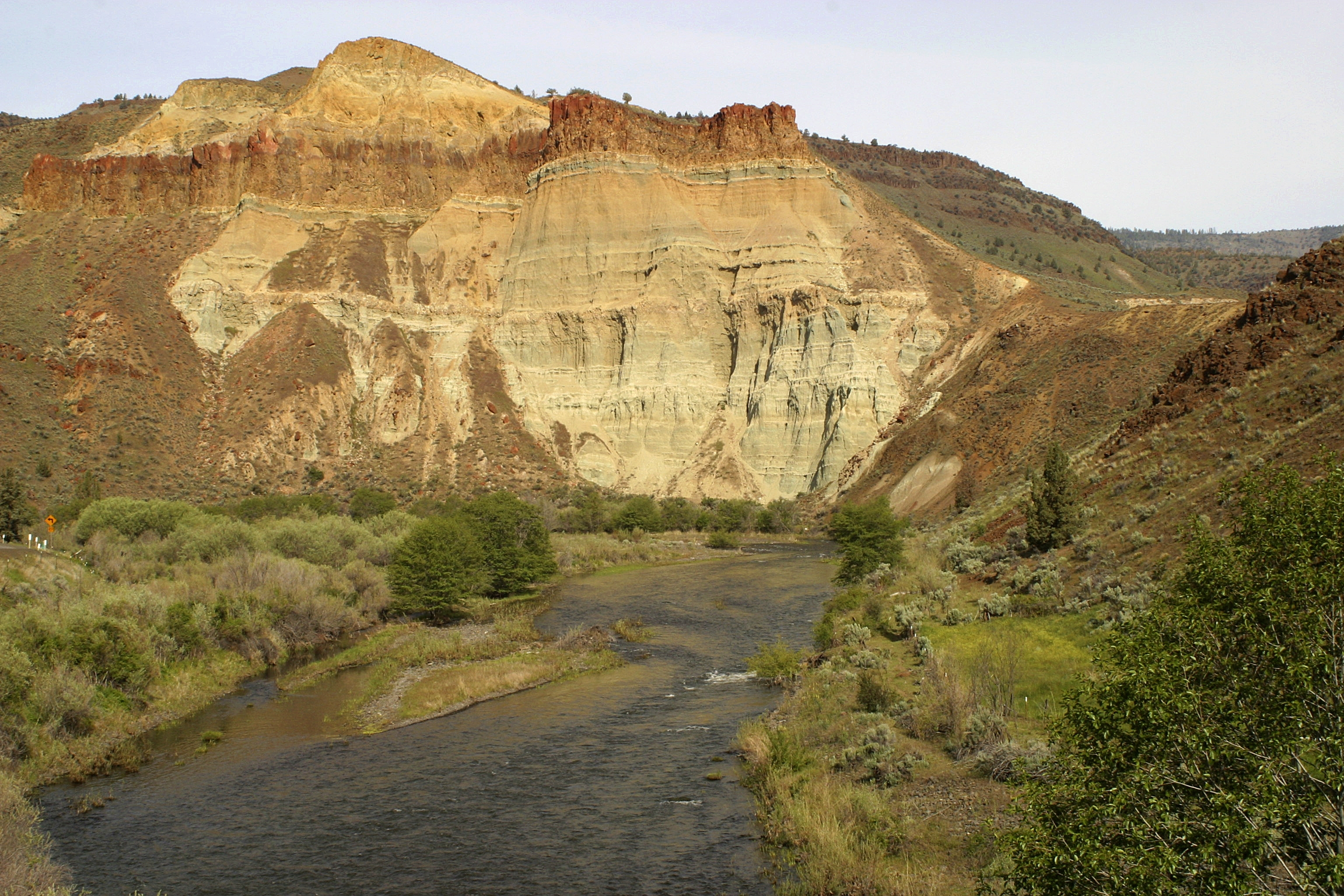 Cathedral Rock, John Day Fossil Beds National Monument, Oregon